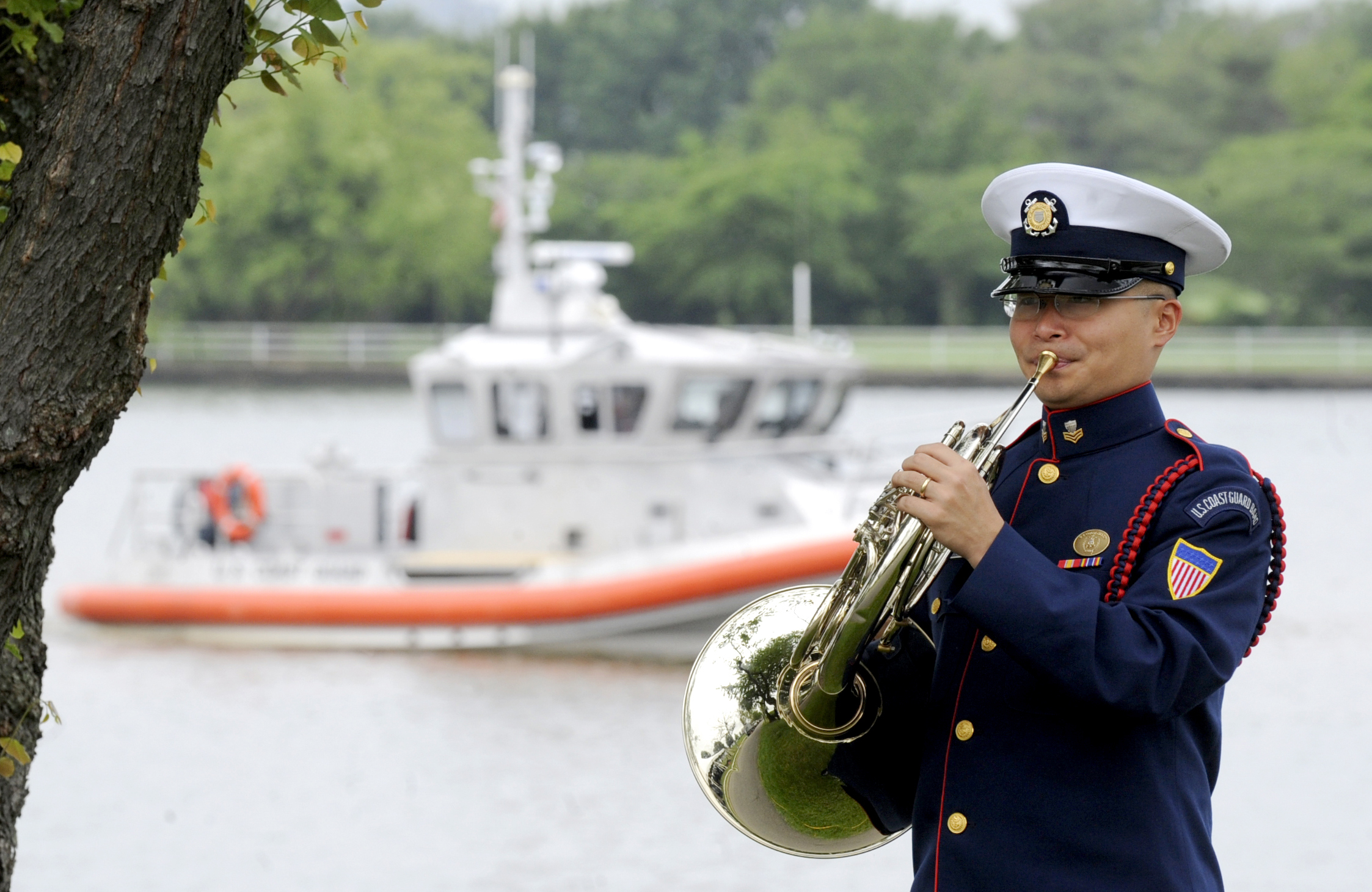 A U.S. Coast Guard Band member warms up as a boat patrols the Potomac River near Fort Lesley J. McNair in Washington, D.C., during the U.S. Coast Guard Change of Command Ceremony, May 25, 2010. Coast Guard Adm. Robert J. Papp Jr. relieved Adm. Thad W. Allen as commandant of the U.S. Coast Guard during the ceremony.